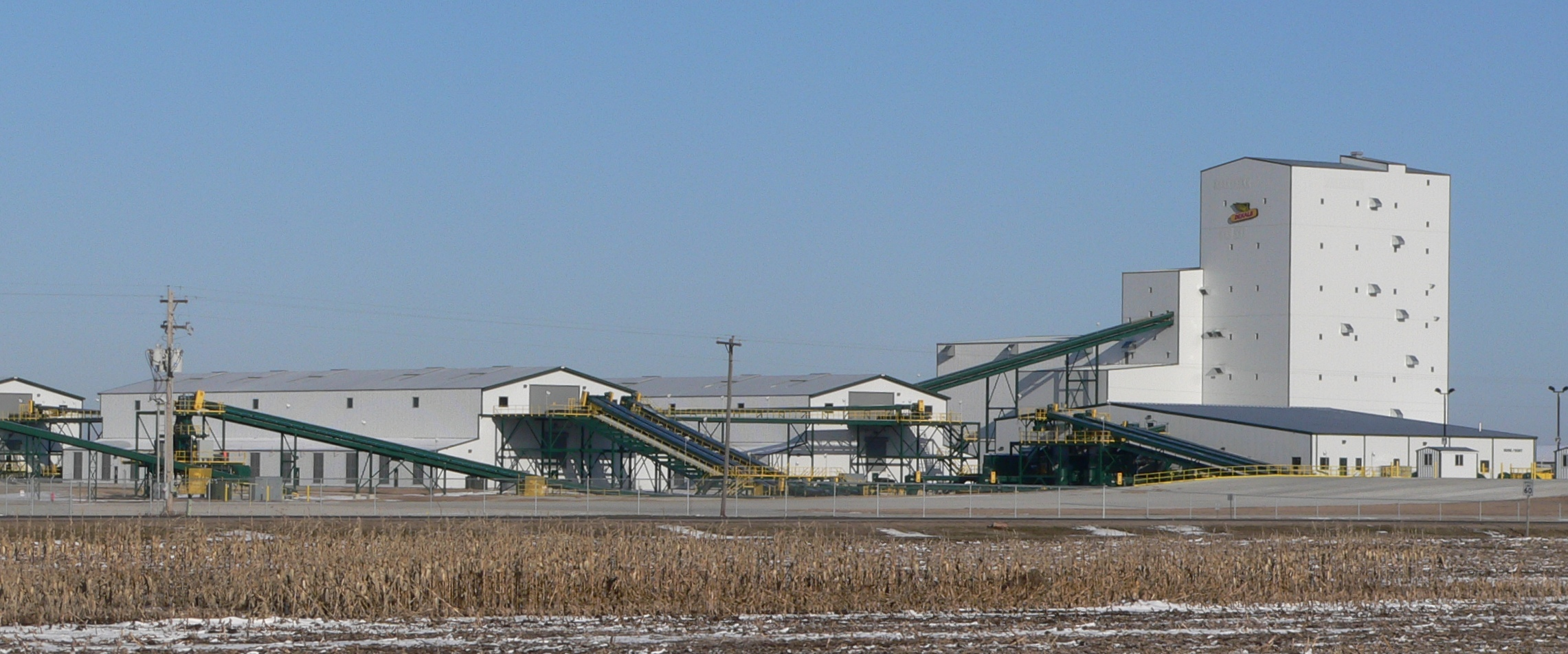 Monsanto Company's Dekalb corn seed production facility in York County, Nebraska. The plant is located on the north side of U.S. Highway 34 between Waco and Utica. It was built in 2008.